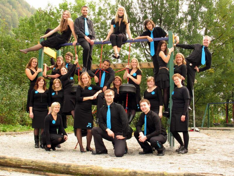 BLAK 2006